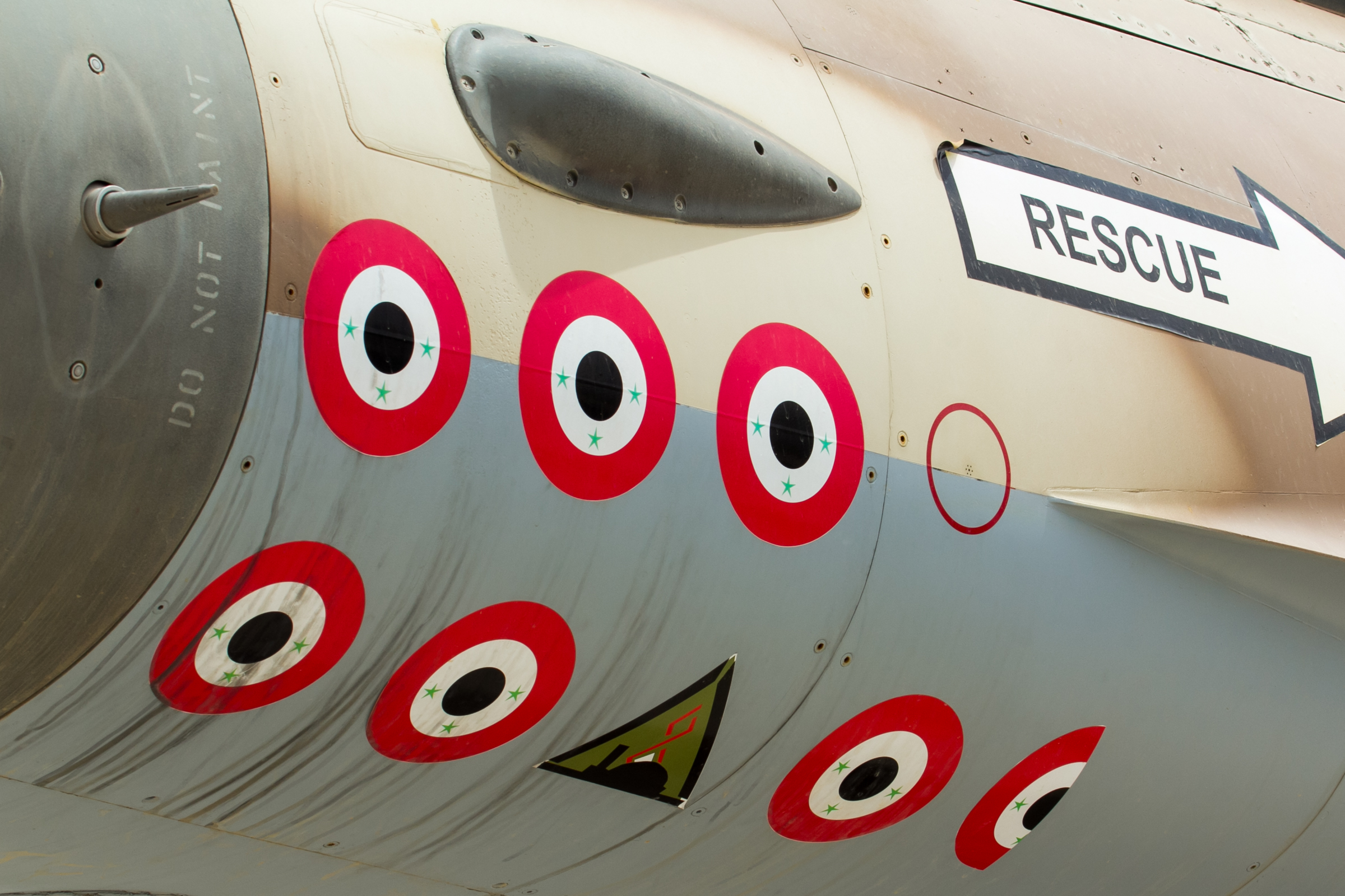 Kill Markings on Israeli Air Force F-16A Netz #107, on display at the Israeli Air Force Museum